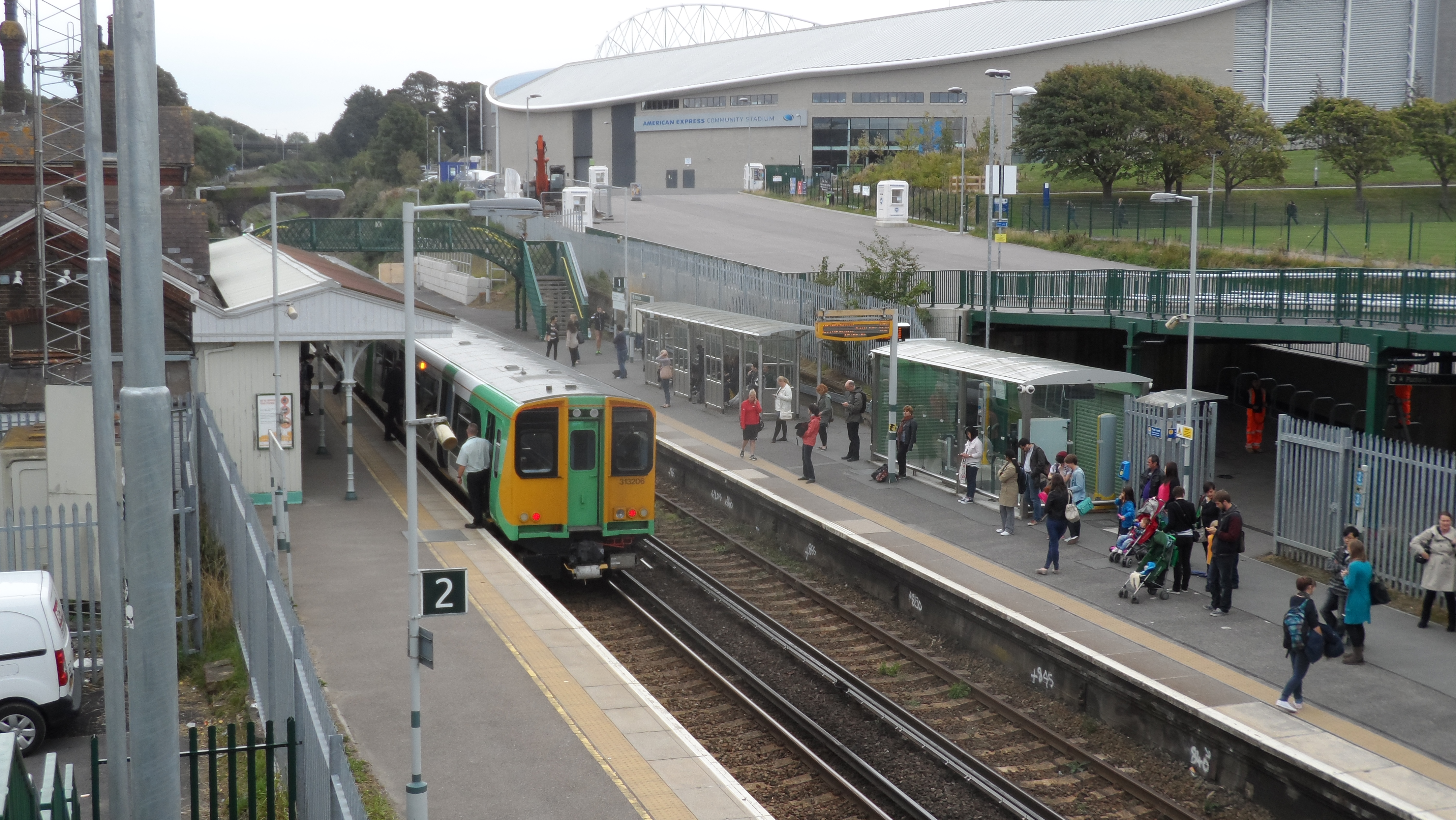 Falmer railway station and (in background) Falmer Stadium, Brighton, East Sussex, in September 2013.